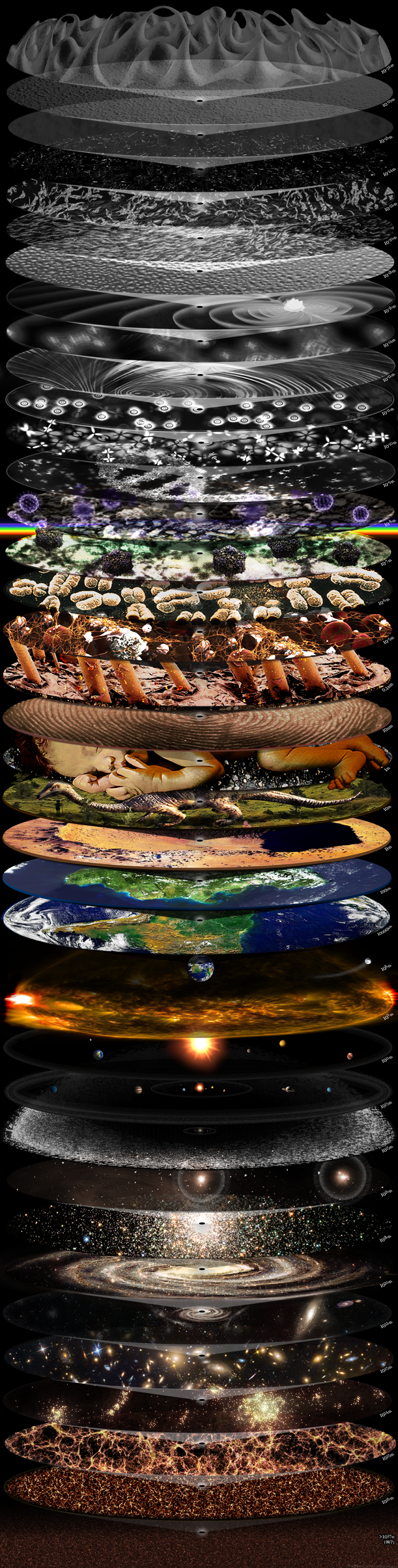 Objects of sizes in different order of magnitude. At 10-32m is thought to exist a foam of twisted spacetime (Quantum foam). 10-24m cross-section radius of 1 MeV neutrinos. 10-22m Top Quark, the smallest quark. 10-20m Bottom and Charm quarks. 10-18m Up and Down quarks. 10-16m Protons and Neutrons. 10-14m Electrons and nuclei. 10-12m Longest wavelength of gamma rays. 10-11m Radius of hydrogen and helium atom. 10-10m Radius of carbon atoms. 10-9m Diameter of the DNA helix. 10-8m Smallest virus (Porcine circovirus). 10-7m Largest virus (Megavirus). 10-6m X Chromosome. 10-5m Typical size of a red blood cell. 0.1mm (10-4m) Width of human hair. 10mm (10-2m) Width of an adult human finger. 1m Height of an infant human being. 10m Argentinosaurus is the biggest dinosaur discovered yet (30 to 35 meters). Human figure is for comparison. In reality humans and dinosaurs didn't live at the same time. 1km Diameter of Barringer Crater in the northern Arizona desert (1186m). 100km (105m) Jamaica Island (235km long). 10000km (107m) Diameter of planet Earth (12,742 km). 108m Moon's orbit (770,000km). 109m Diameter of the Sun (1391400km). 1011m Diameter of the inner Solar System. (600,000,000 km) 1013m Diameter of the Solar System. 1015m Outer limit of the Oort Cloud. 1016m Distance to Alpha Centauri. 1018m Messier 13 globular cluster. 1020m Diameter of the Milky Way Galaxy. 1022m Local Group of galaxies including Milky Way, M31(Andromeda), M33, SMC, LMC and smaller galaxies. 1023m Typical galaxy cluster (2 to 10 Mpc). 1024m Laniakea Supercluster of galaxies. (160 Mpc) 1025m End of Greatness ("Cosmic web" structure). 1026m Diameter of the observable universe sphere. The entire Universe is larger than 1027m and possibly infinite.